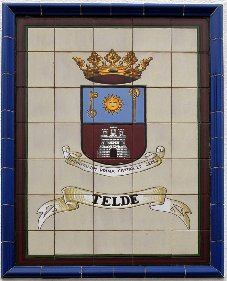 city arms of Telde (Gran Canaria)